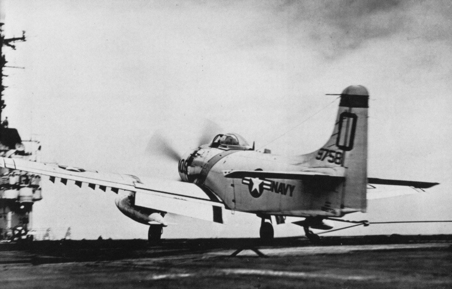 A U.S. Navy Douglas AD-6 Skyraider (BuNo 139758) of Attack Squadron VA-16 "Black Knights" landing aboard the aircraft carrier USS Lake Champlain (CVA-39). VA-16 was assigned to Air Task Group 182 (ATG-182) aboard the USS Lake Champlain for a deployment to the Mediterranean Sea from 21 January to 27 July 1957.